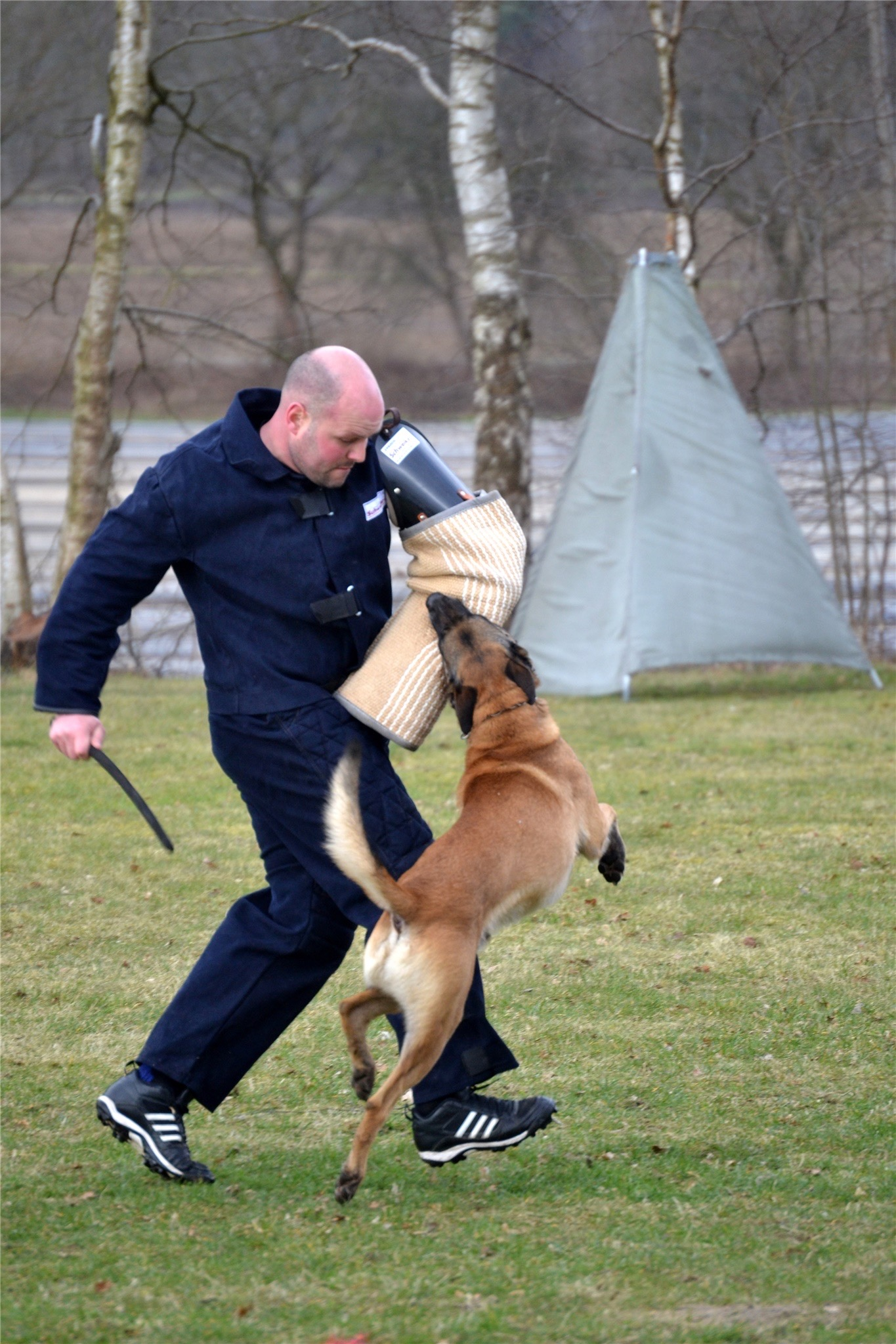 A Belgian Malinois at a Schutzhund trial during the protection phase, performing a bite on the decoy (man)